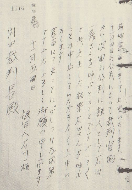 The letter to Takefumi Uchida from Kazuo Ishikawa, 1963.